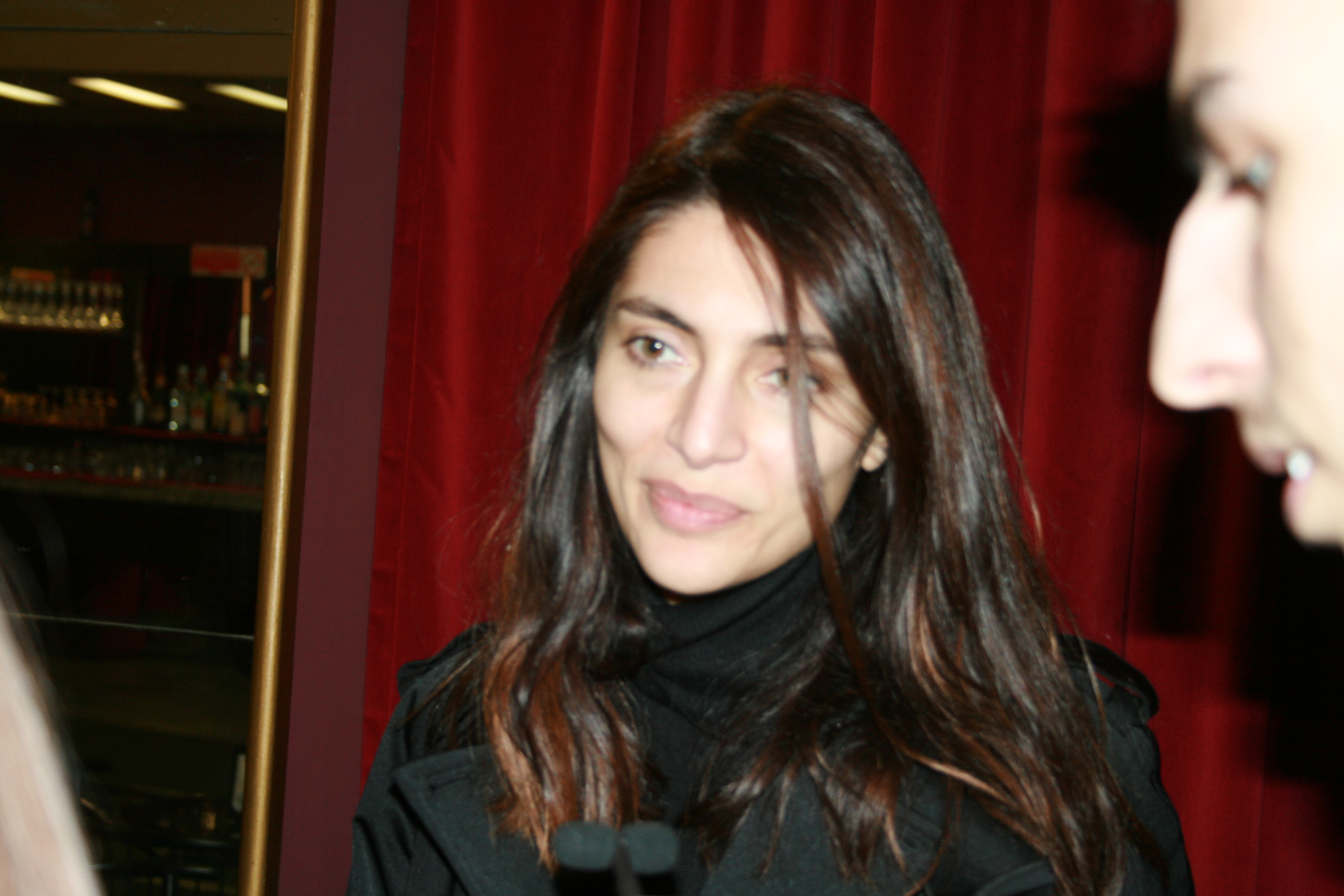 Actress Caterina Murino